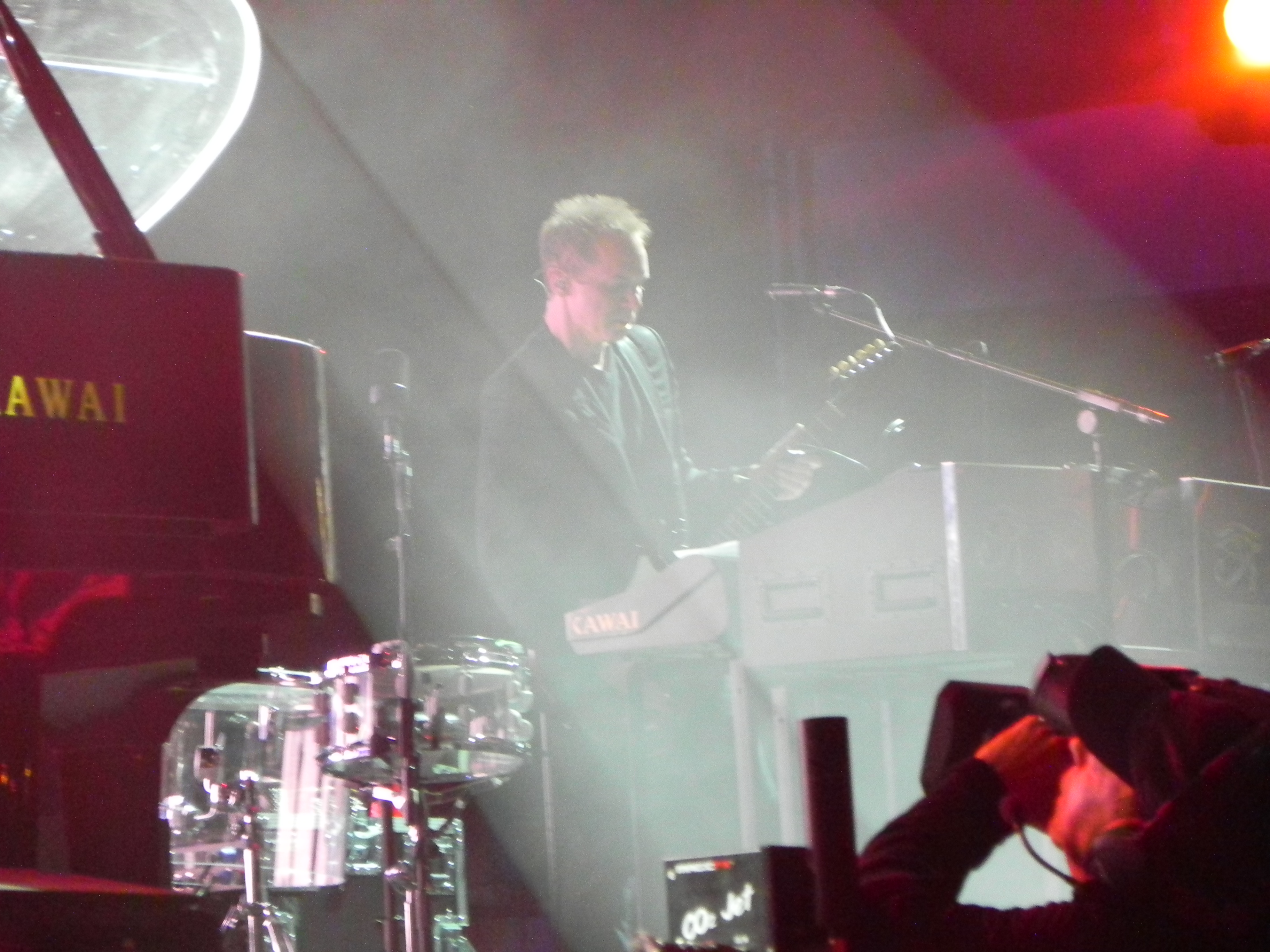 Morgan Nicholls during a Muse concert.